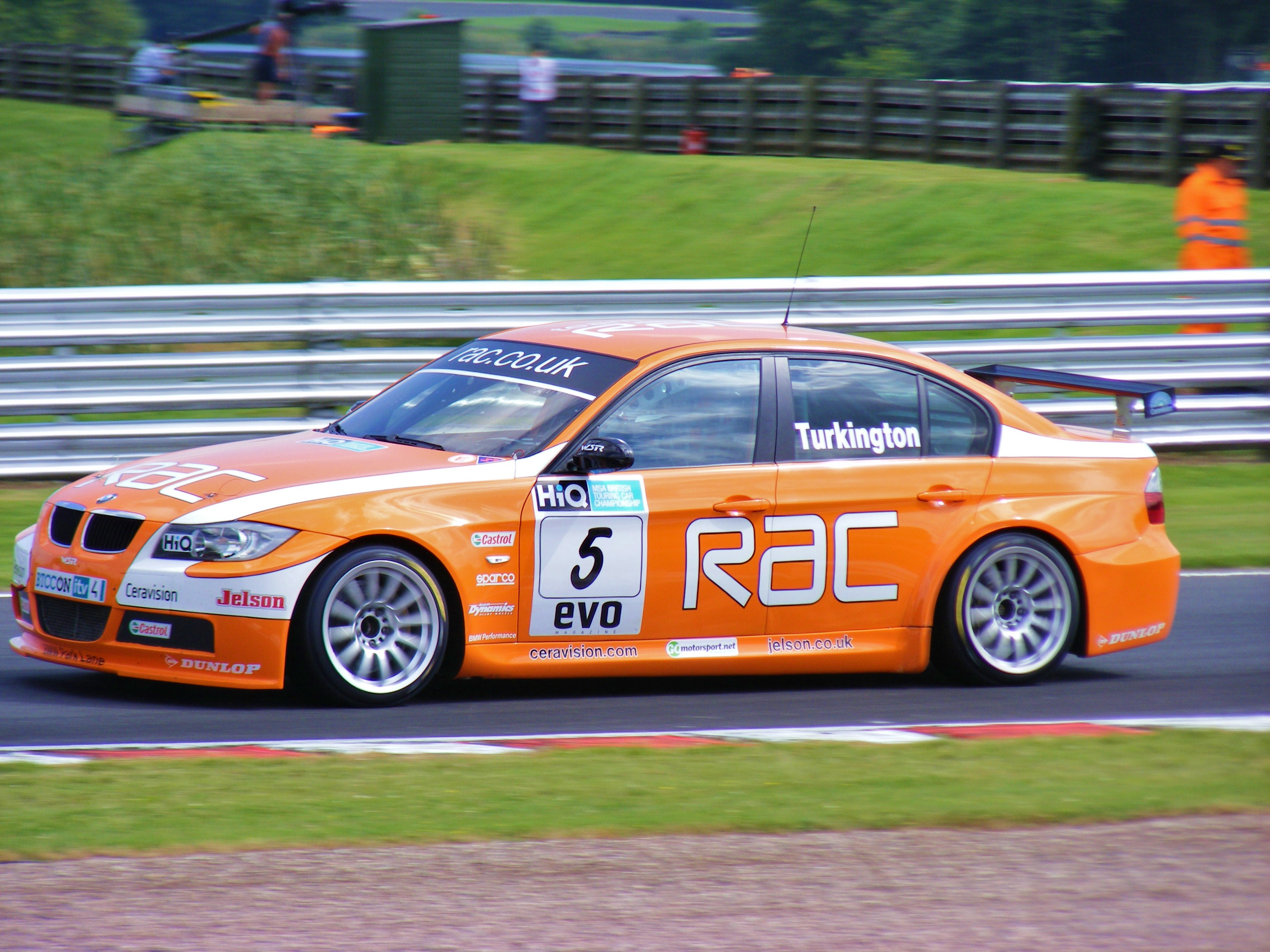 Colin Turkington exists Knickerbrook at Oulton Park during the qualifying session.